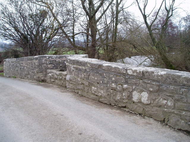 Stone bridge. A stone bridge over the River Clywedog, north-east of Llanynys.